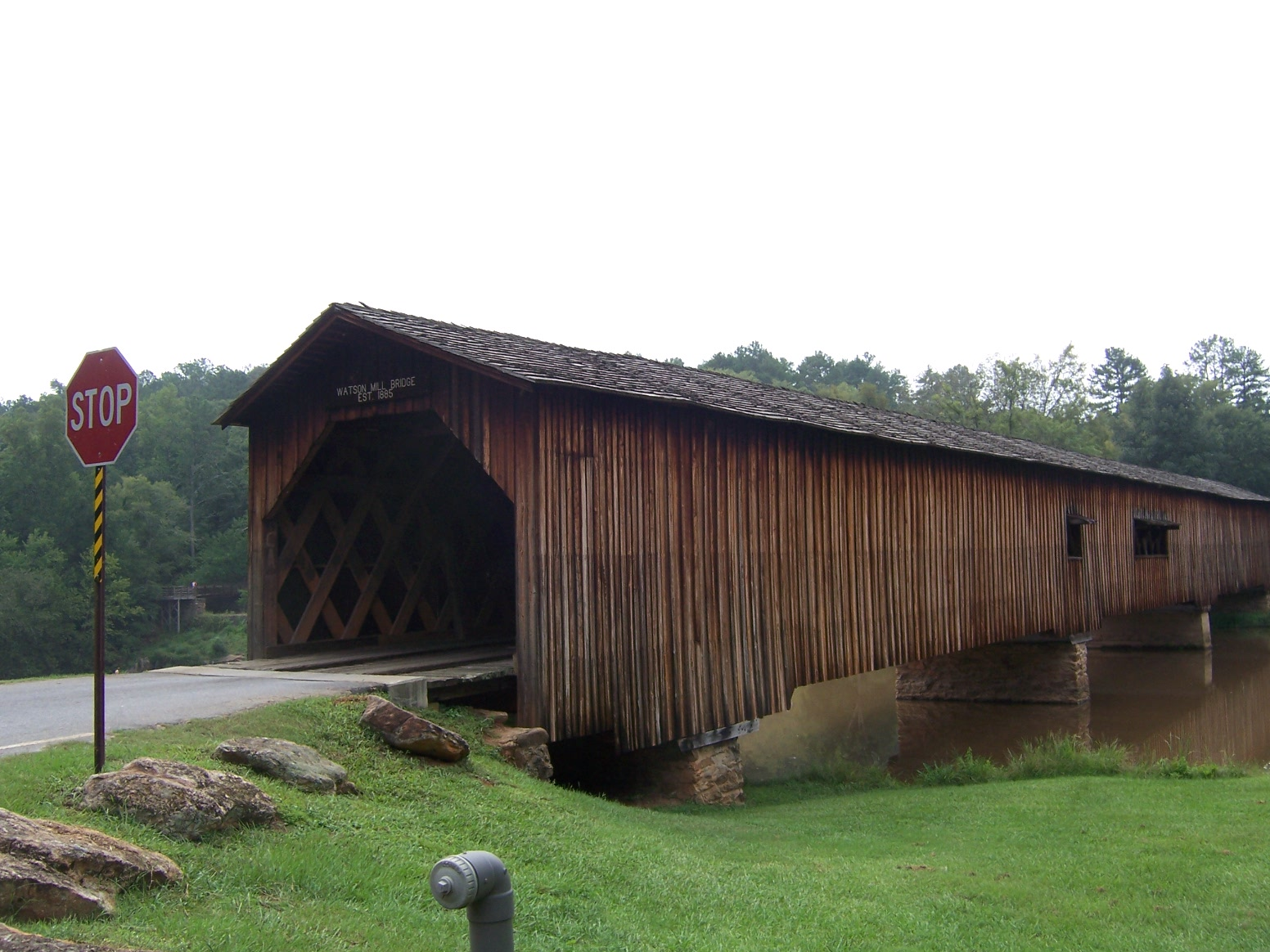 Watson Mill Bridge in Carlton, Georgia, USA. Original description: Covered bridge in North Georgia